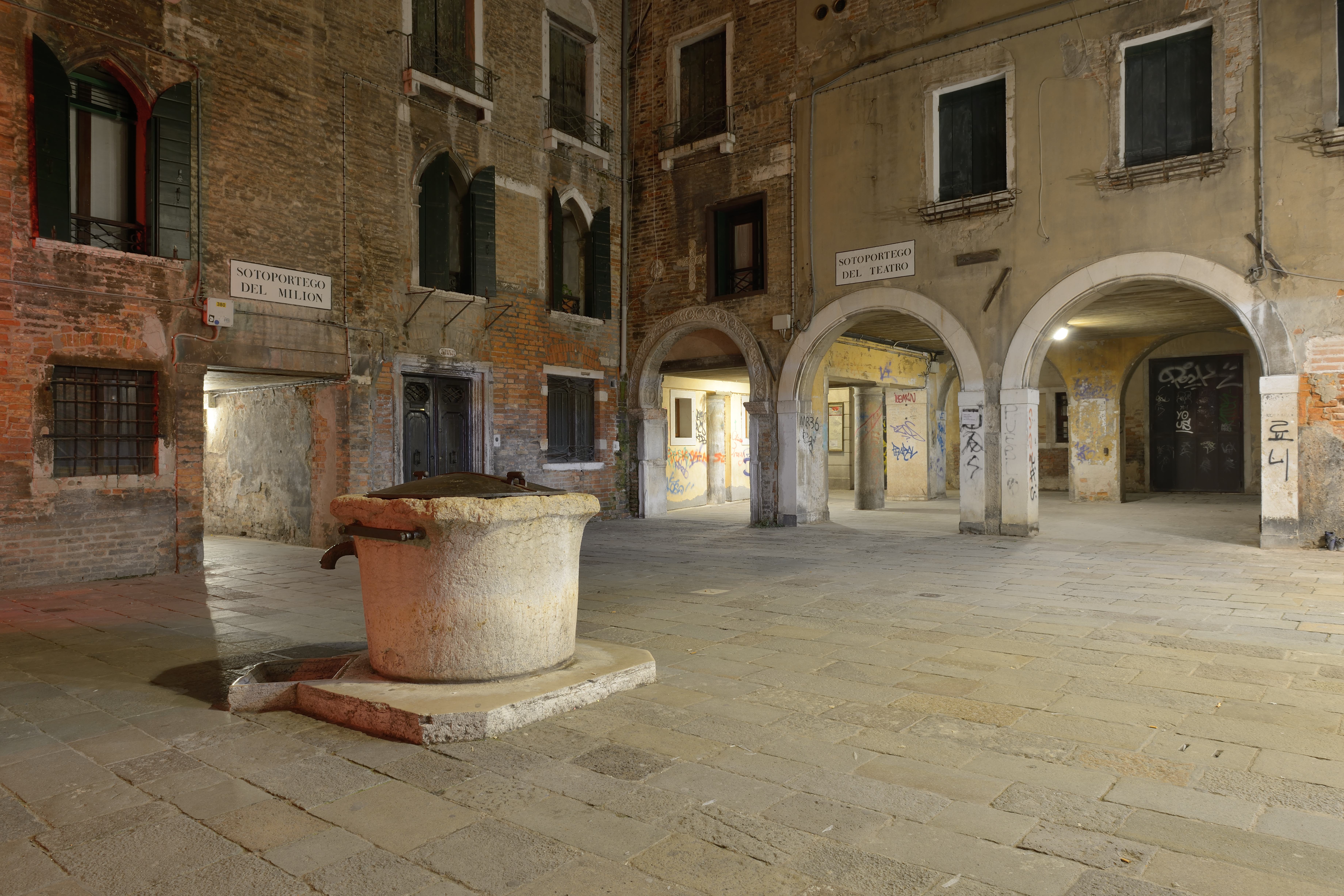 The Corte seconda del Milion court and thr romanesque archway Sotoportego del Teatro in Venice